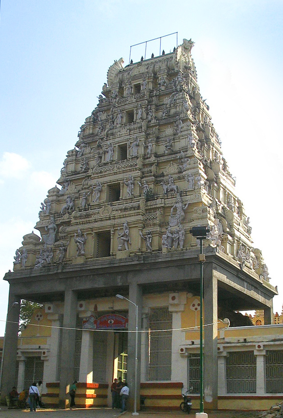 This is a derivative work based on the CC-BY-SA Flickr image listed above. Nandi Temple (Bull Temple) in Bangalore, India.